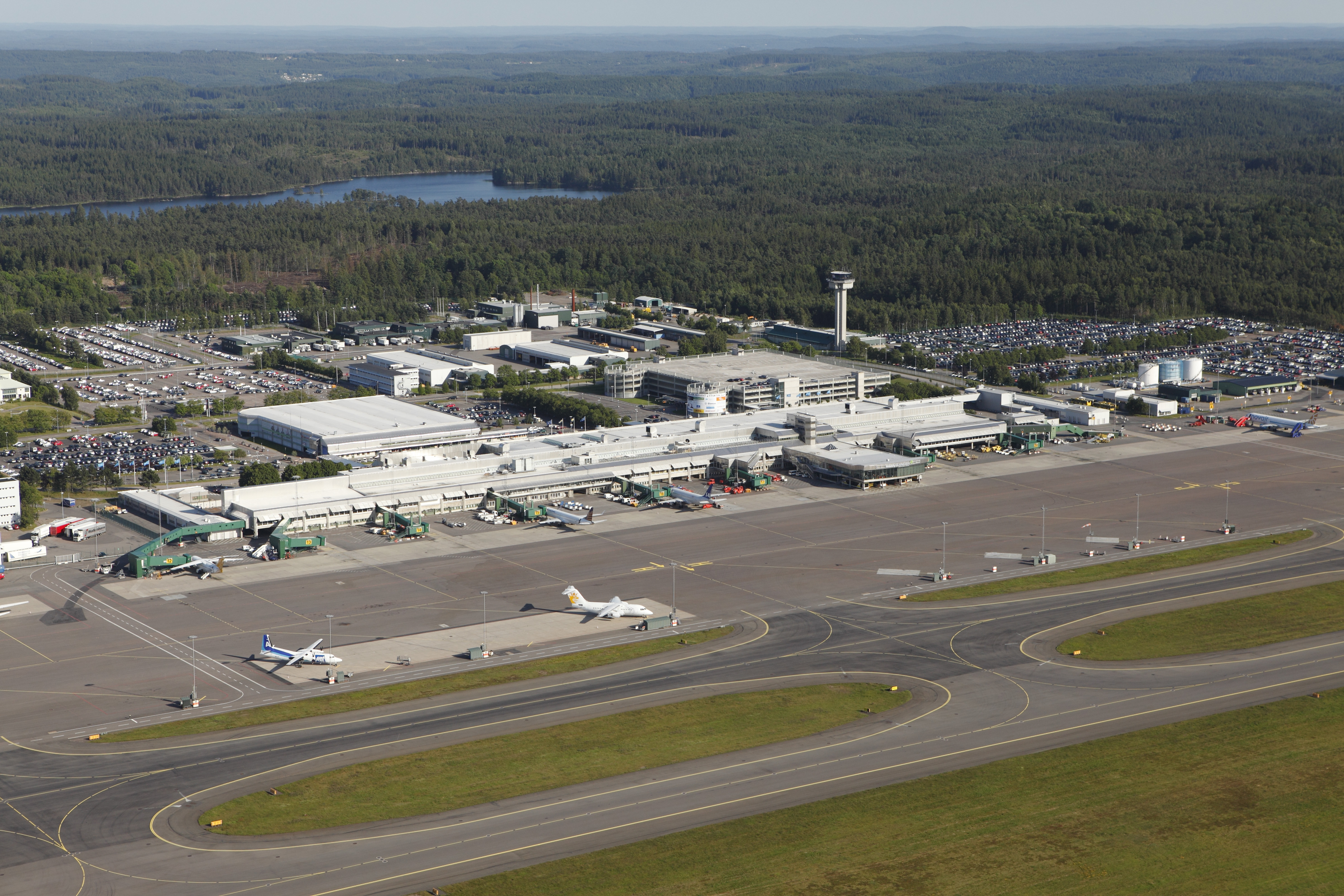 Gothenburg Landvetter Air View